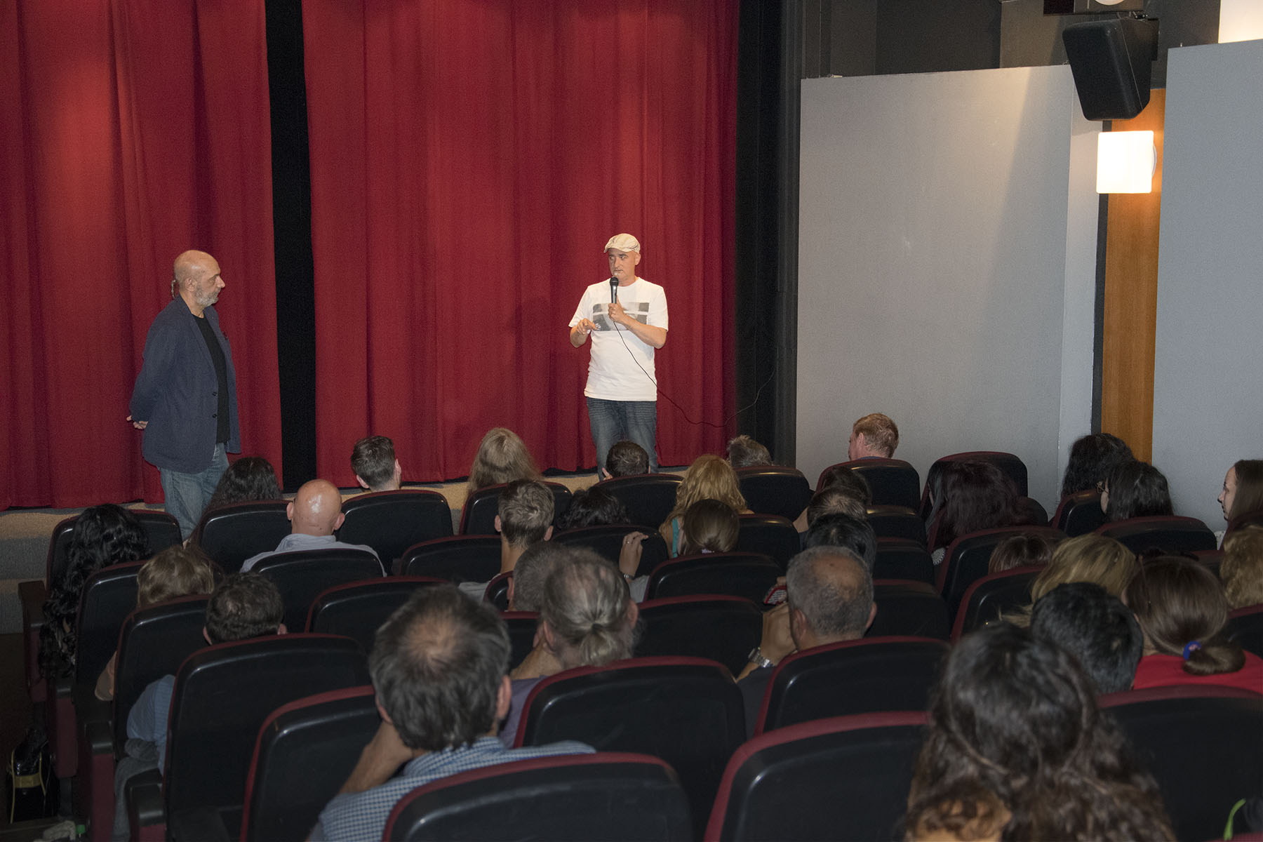 Director Angelo Orlando with composer Saro Cosentino presenting the film "Rocco Has Your Name" (Rocco Tiene Tu Nombre) at the opening of the Prague Independent Film Festival in August, 2016.